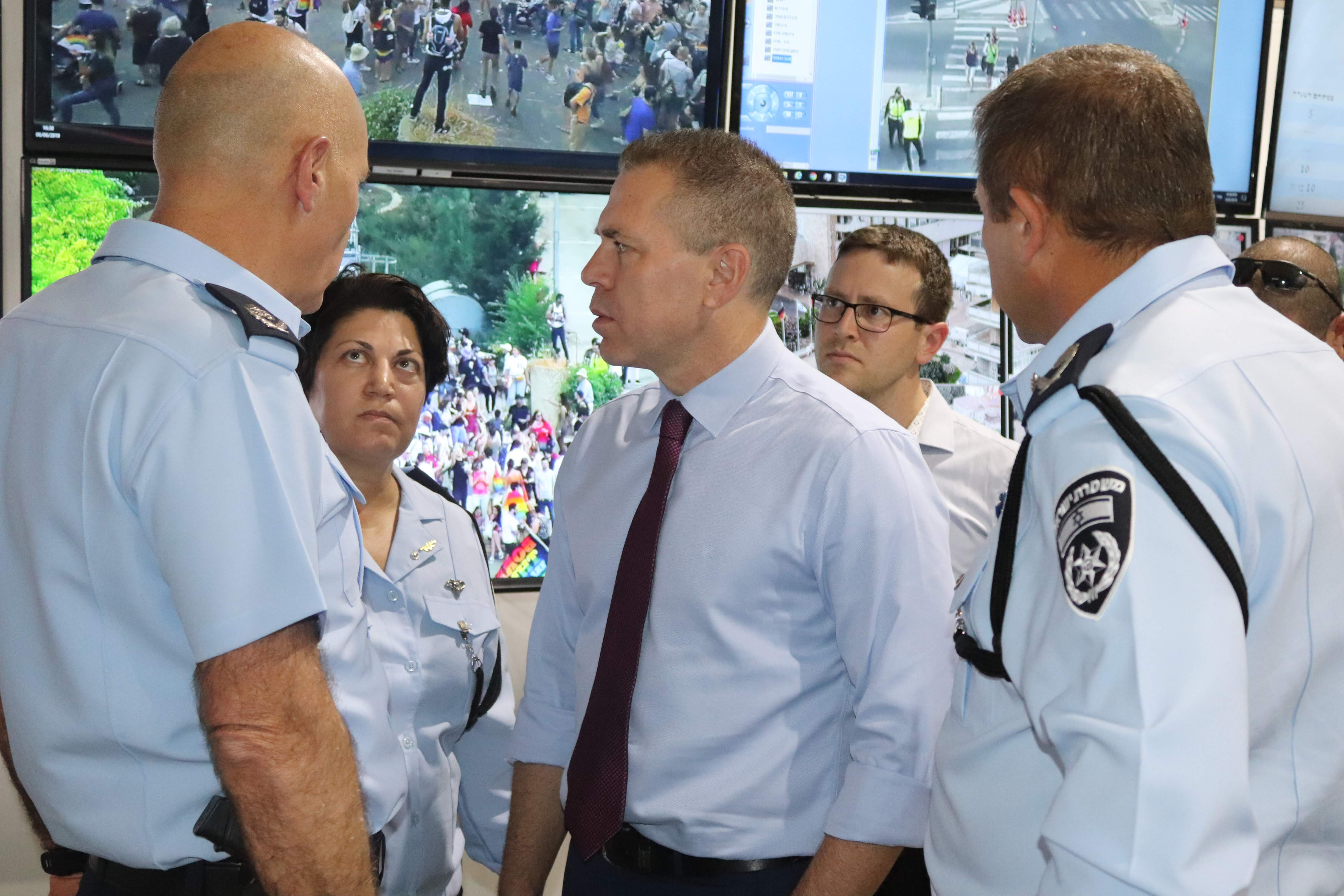 Israeli Minister of Public Security, Gilad Erdan, debriefed by acting Police Commissioner Moti Cohen and Commander of the Jerusalem District, Doron Yadid.